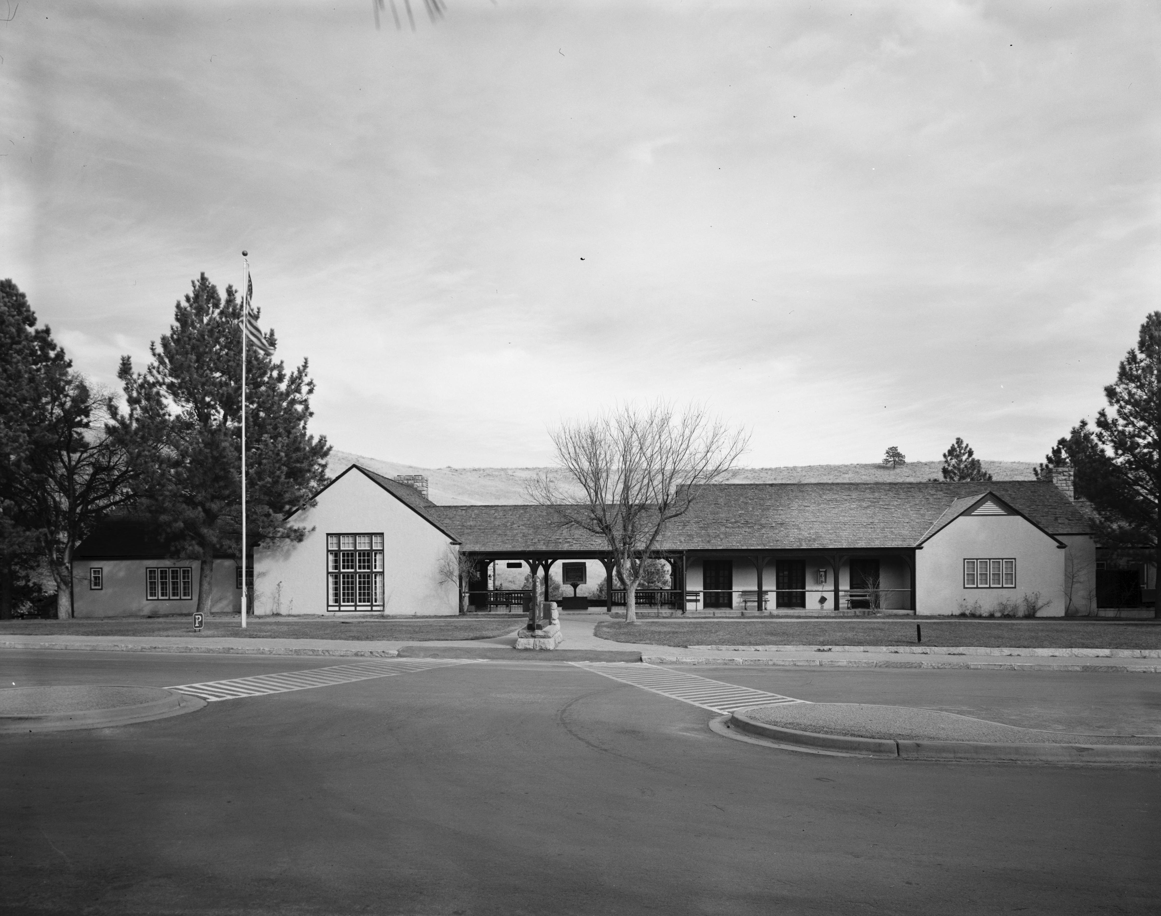 Front of the main administration building for Wind Cave National Park — located off U.S. Route 385 east of Custer in Custer County, South Dakota, United States. The building is part of the Wind Cave National Park Administrative and Utility Area Historic District, a historic district that is listed on the National Register of Historic Places in Wind Cave National Park. 1978 image: HABS—Historic American Buildings Survey of South Dakota.